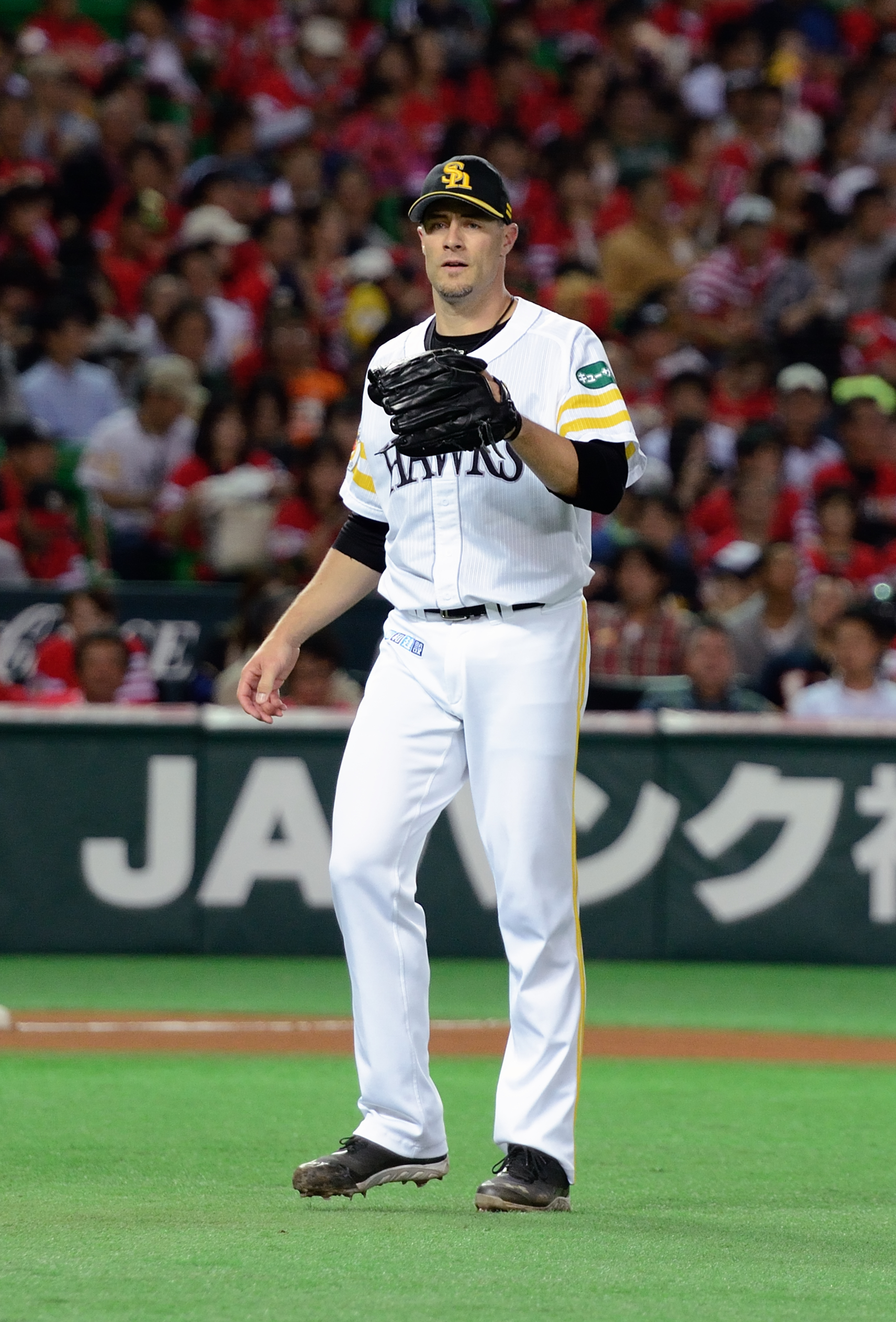 Jason Standridge, pitcher of the Fukuoka SoftBank Hawks, at Fukuoka Dome.